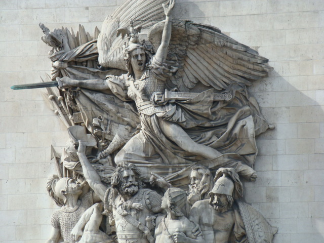 Arc De Triomphe, Paris, France. Detail